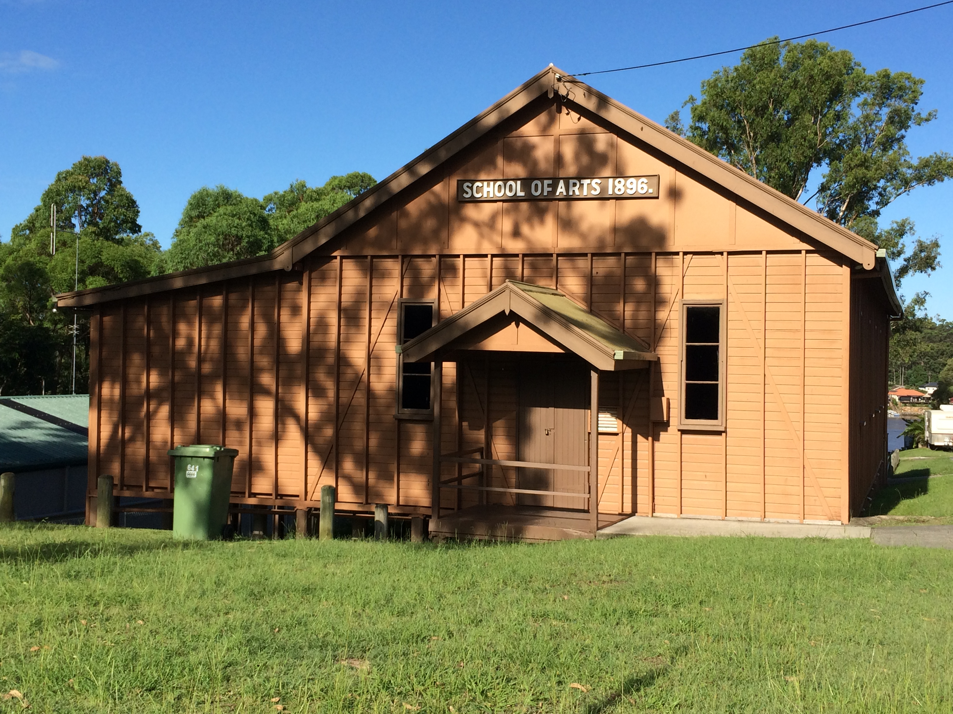 Upper Coomera School of Arts opened 1896, near the Coomera River